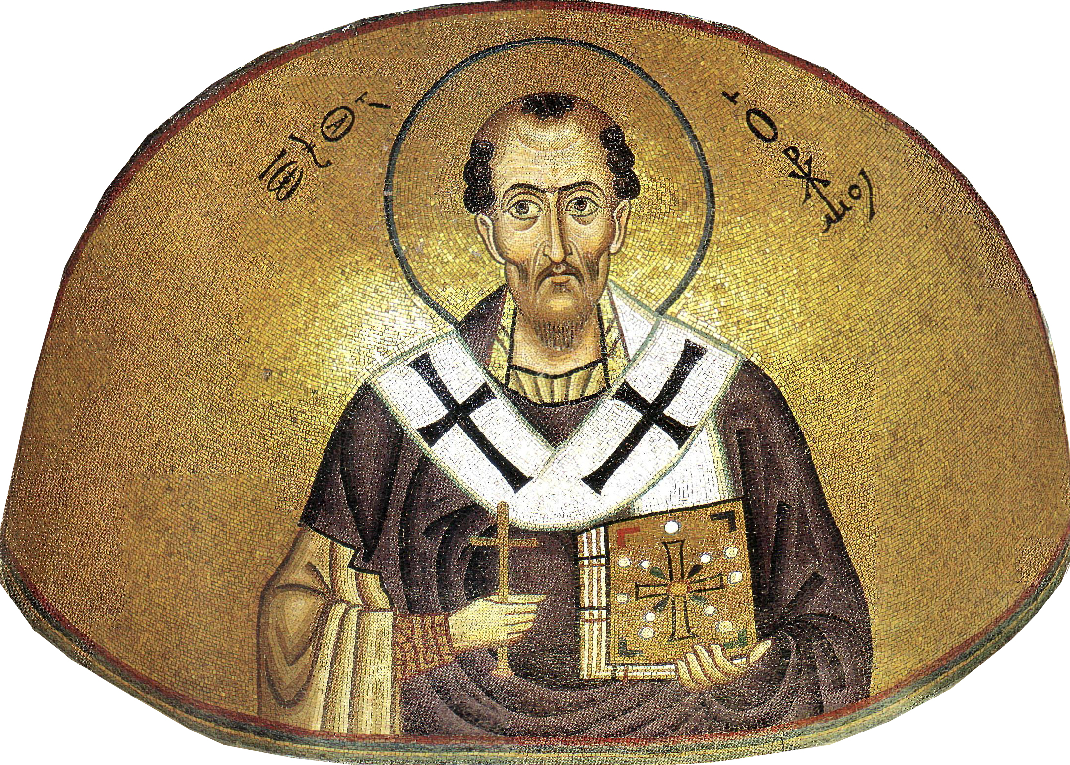 Hosios Loukas Monastery, Boeotia, Greece